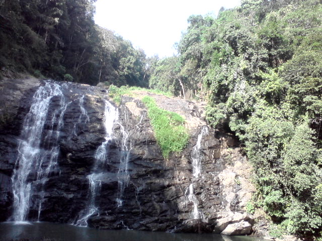 abby falls madikkeri